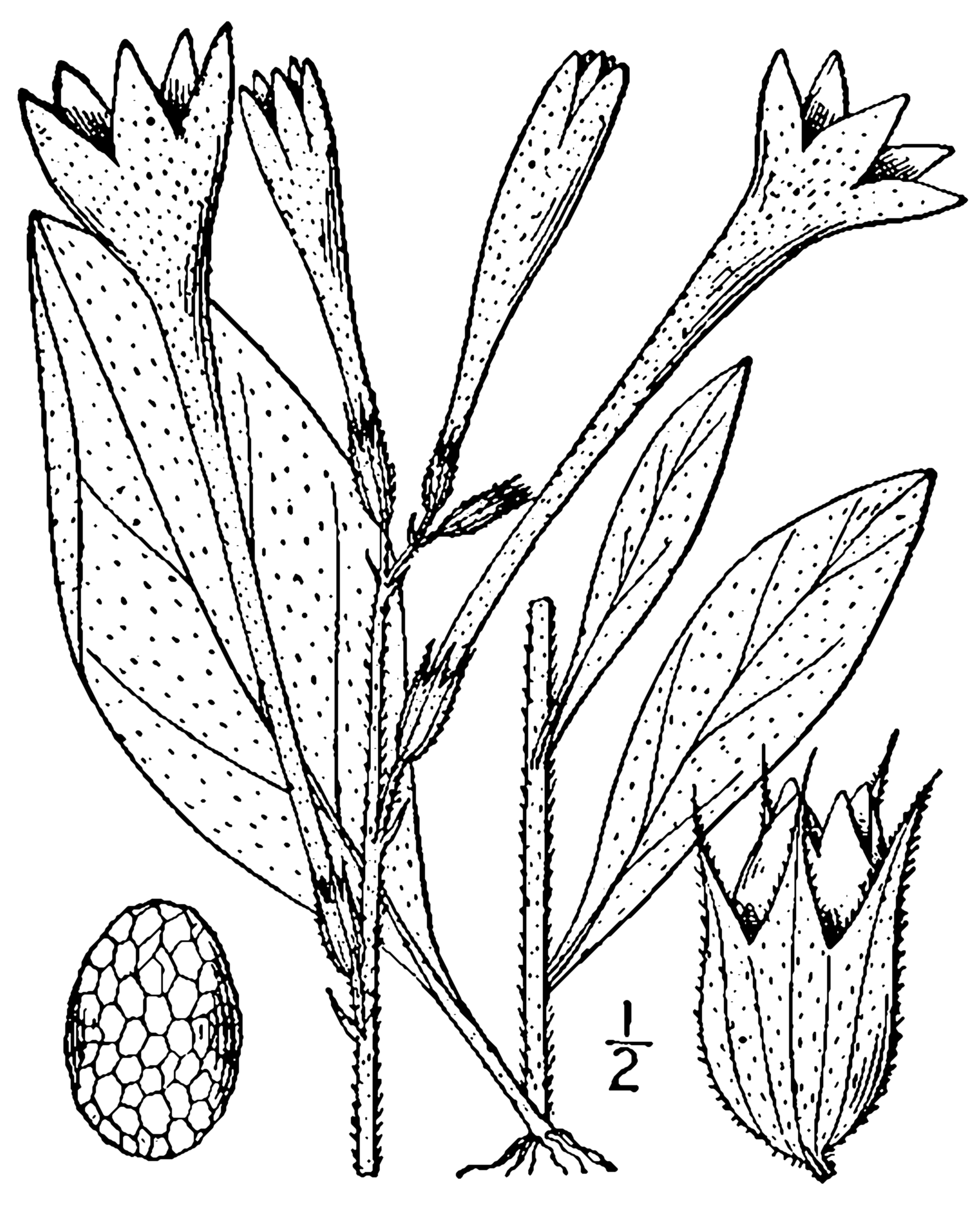 Nicotiana longiflora Cav. - longflower tobacco